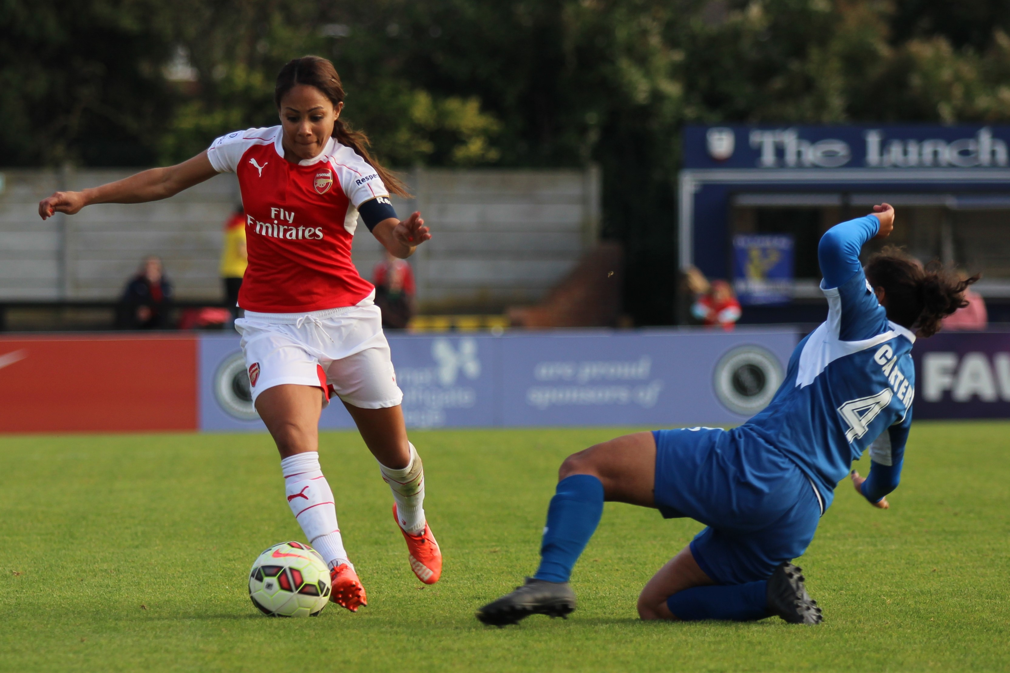 Alex Scott of Arsenal Ladies on the ball during the game against Birmingham.